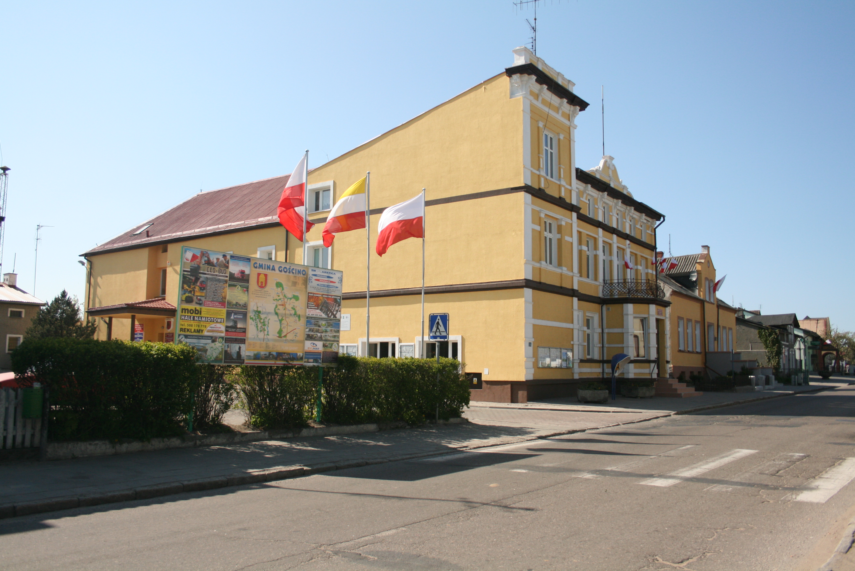 Gmina office in Goscino.